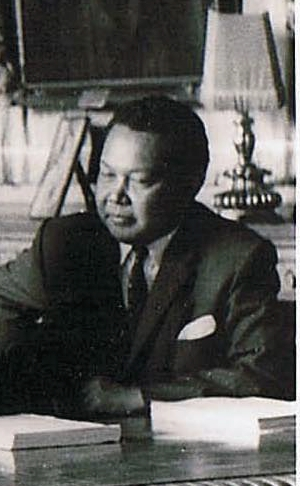 Image of Ghazali Shafie.